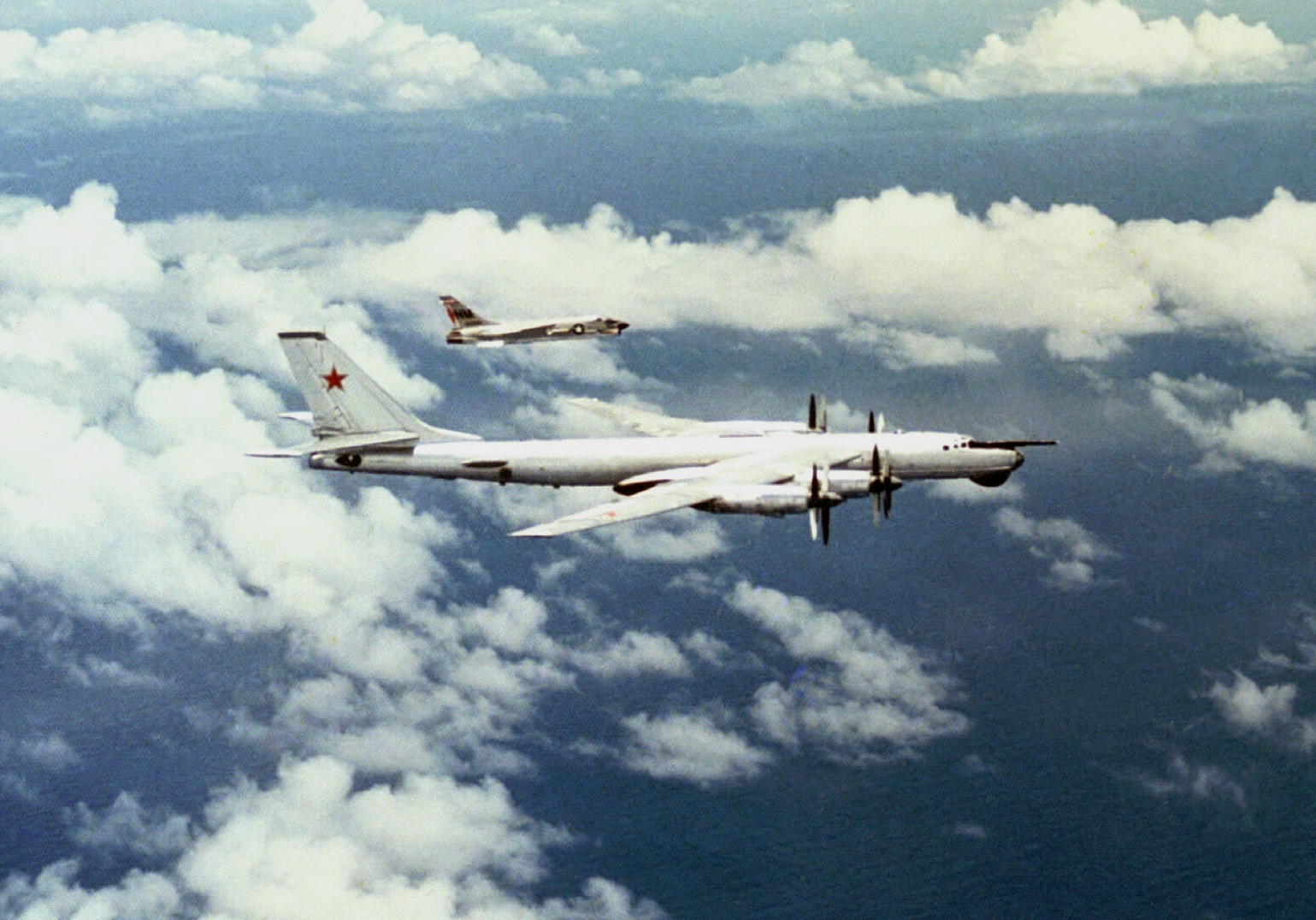 A U.S. Navy Vought F-8J Crusader of Fighter Squadron VF-194 Red Lightnings intercepts a Soviet Tupolev Tu-95RTs Bear-D reconnaissance aircraft near the aircraft carrier USS Oriskany (CVA-34) on 25 May 1974. VF-194 was assigned to Attack Carrier Air Wing 19 (CVW-19) for a deployment to the Western Pacific from 18 October 1973 to 5 June 1974.